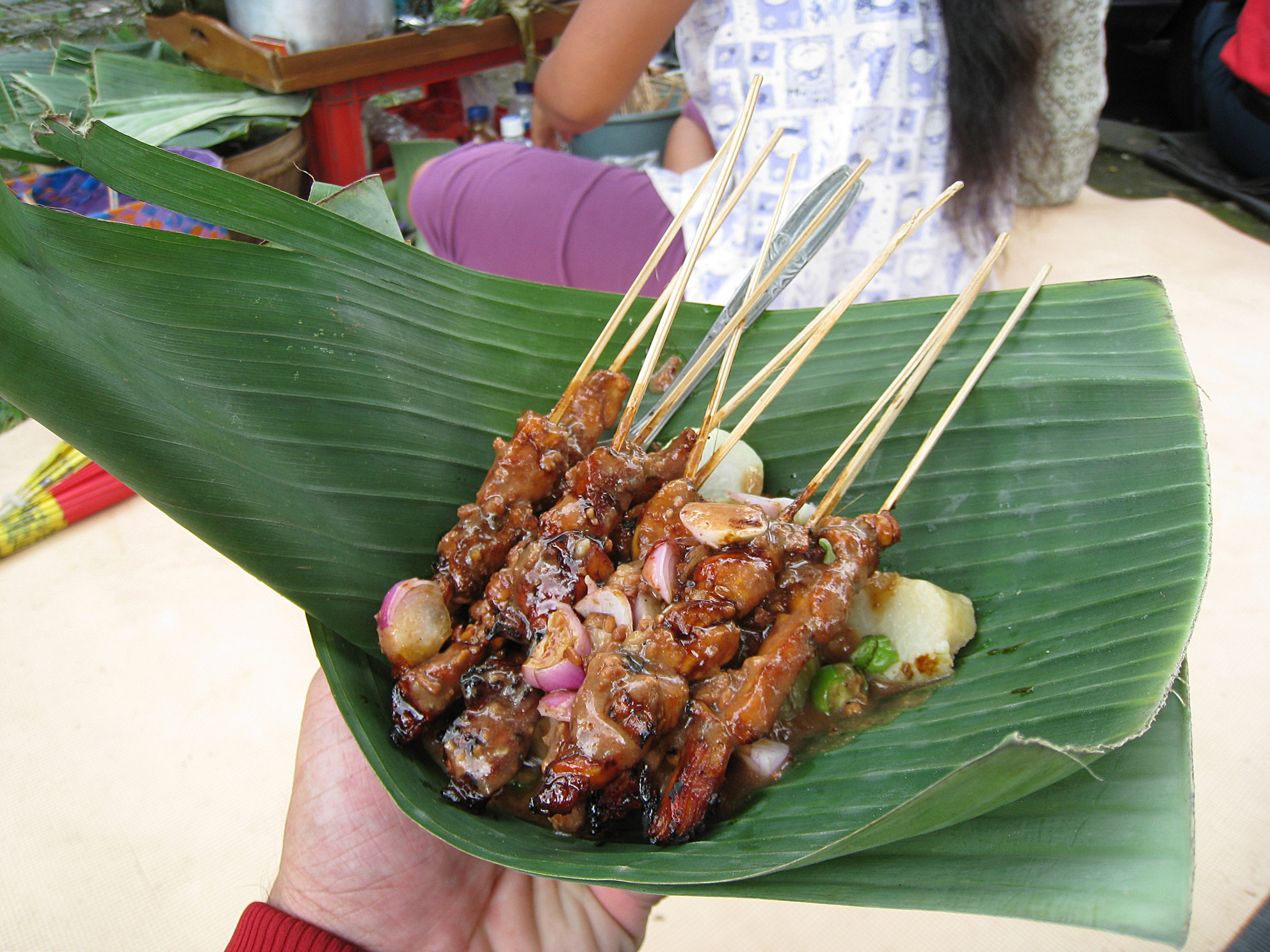 Chicken satay with lontong glutinous rice on banana leaf plate at a humble "kakilima" or road side chicken satay seller near Borobudur, Central Java.